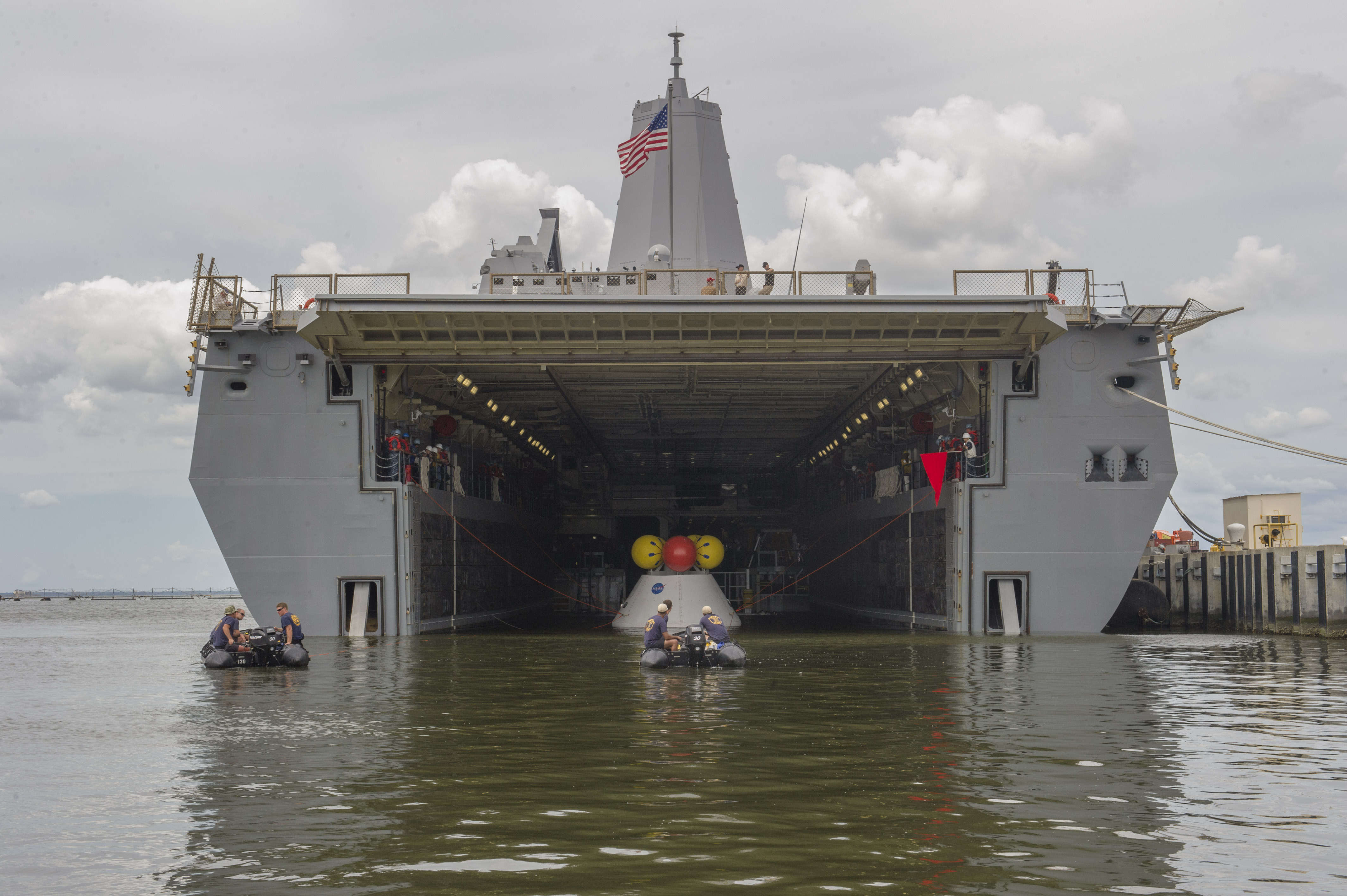 U.S. Navy sailors aboard the amphibious transport dock ship USS Arlington (LPD-24) recover an Orion stationary recovery test at Naval Station Norfolk, Virginia (USA). NASA is partnering with the U.S. Navy to develop procedures to recover the Orion capsule and crew after splashdown.